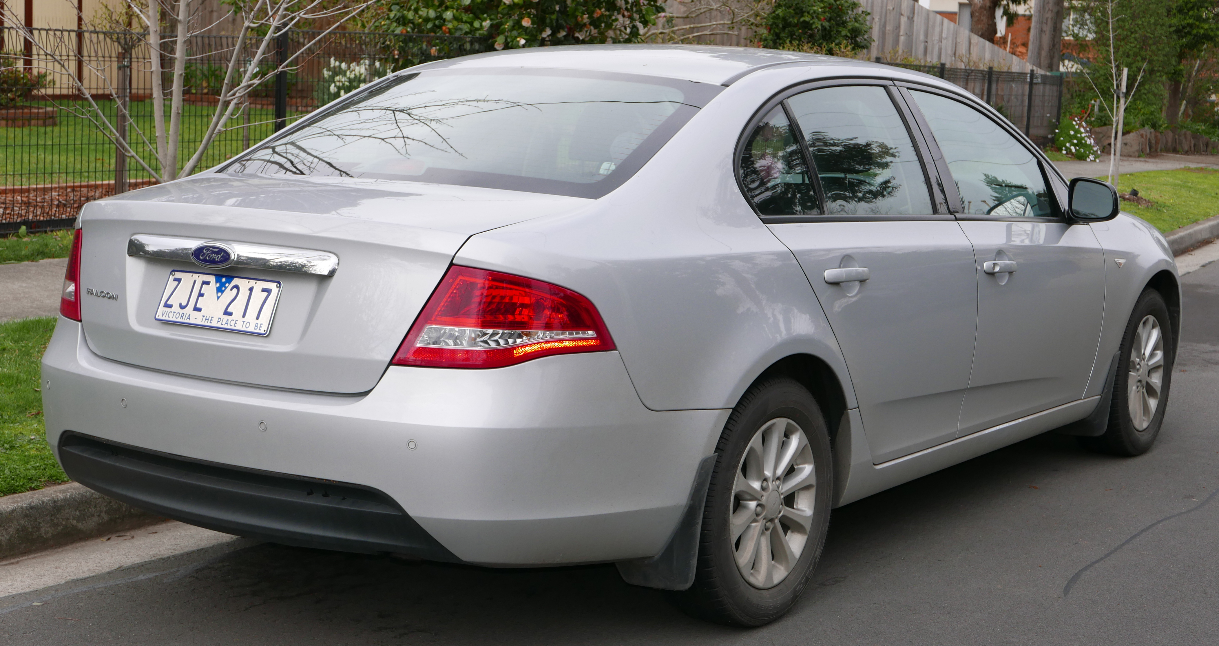 2012 Ford Falcon (FG II) XT sedan. Photographed in Blackburn, Victoria, Australia. Vehicle registration enquiry resultsJurisdictionVictoriaRegistrationZJE217Chassis code6FPAAAJGSWCS98733Engine codeJGSWCS98733Compliance date2012-11Year of manufacture2012